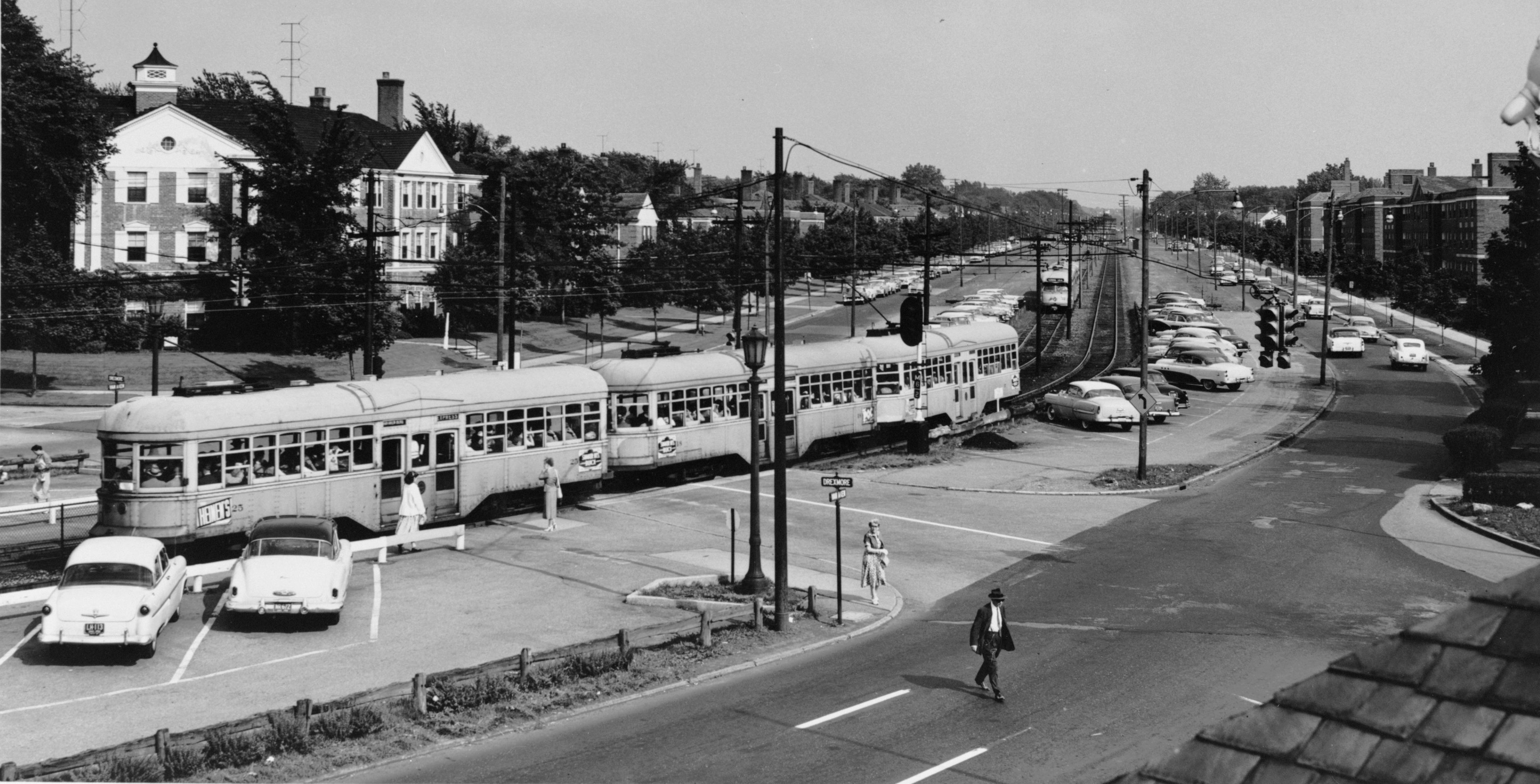 A three-care train of 1200s stops at Drexmore station along Van Aken Boulevard in Shaker Heights, Ohio in 1956 as a PCC car approaches.